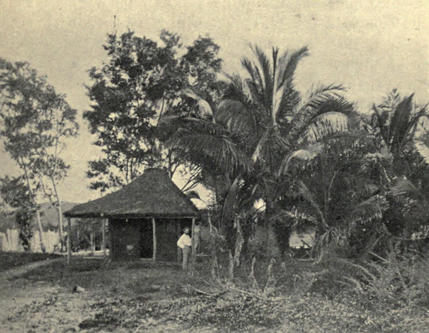 Wayside Scene, New Caledonia.